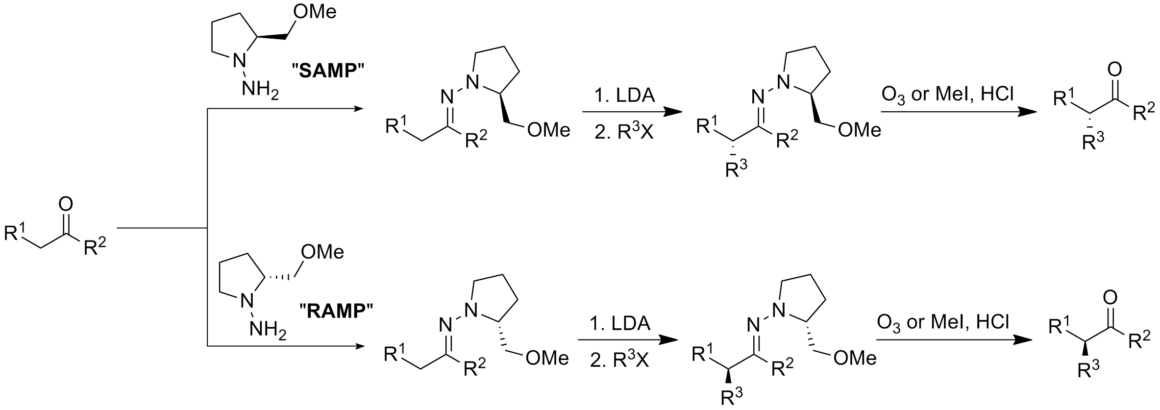 general depiction of Enders' SAMP/RAMP hydrazone alkylation reaction.